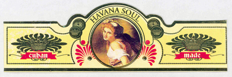 Scan of Havana Soul cigar band; 600 dpi